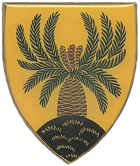 SADF 4 SAI badge clean